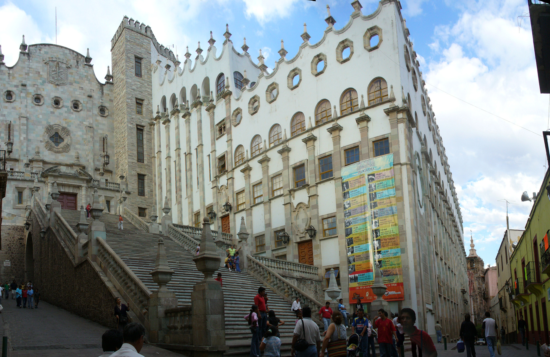 Panoramic view of the university of Guanajuato, Mexico